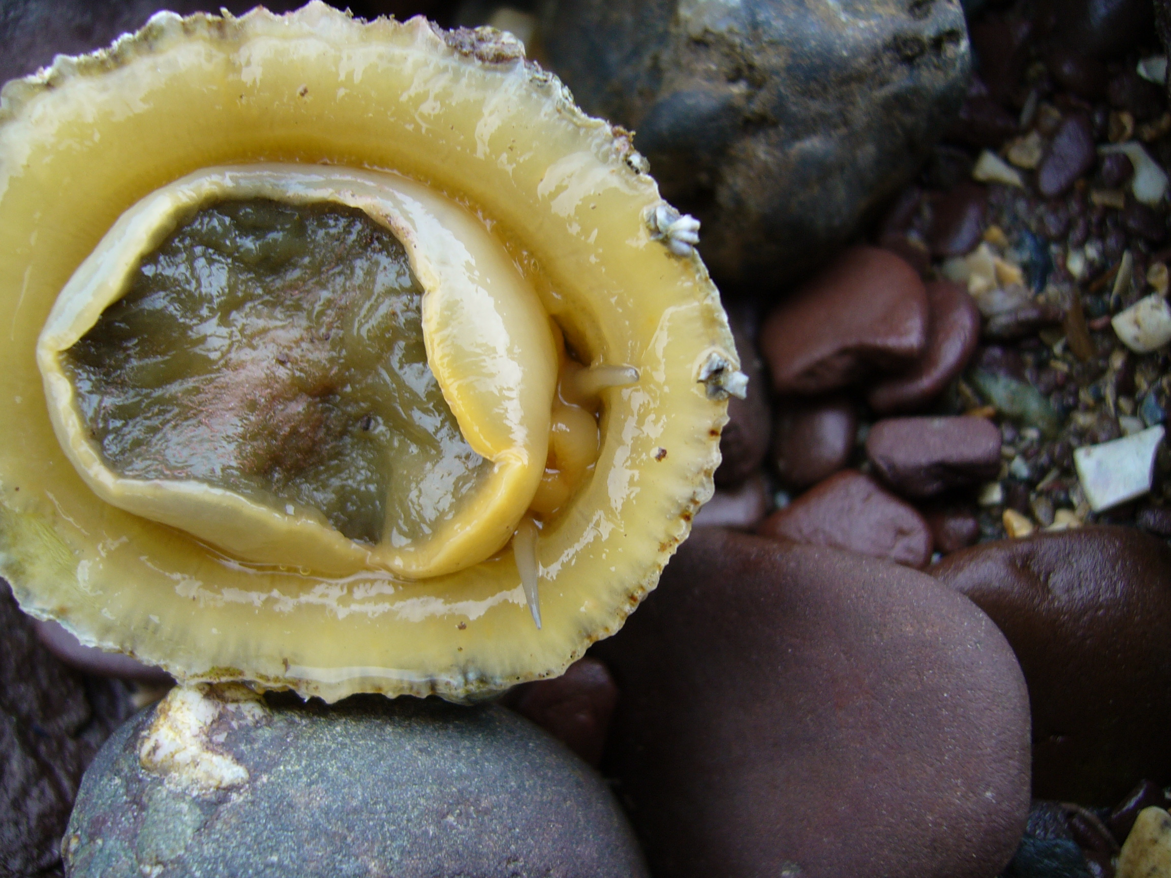 Common limpet (Patella Vulgata) in Pembrokeshire, Wales